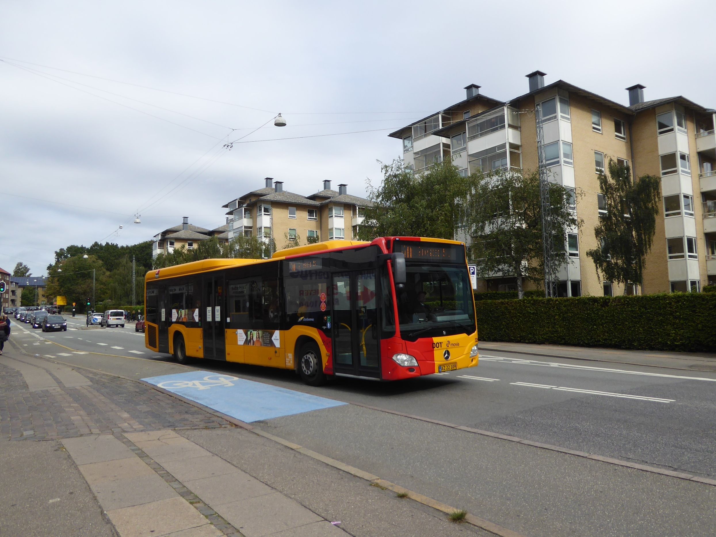 Movia bus line 4A on Søndre Fasanvej in Frederiksberg in Copenhagen.